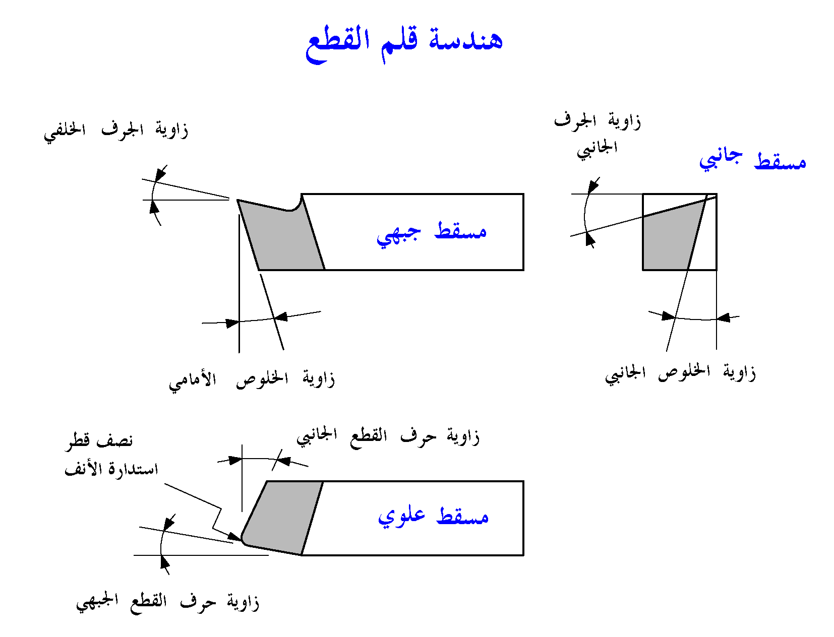 Tool bit geometry